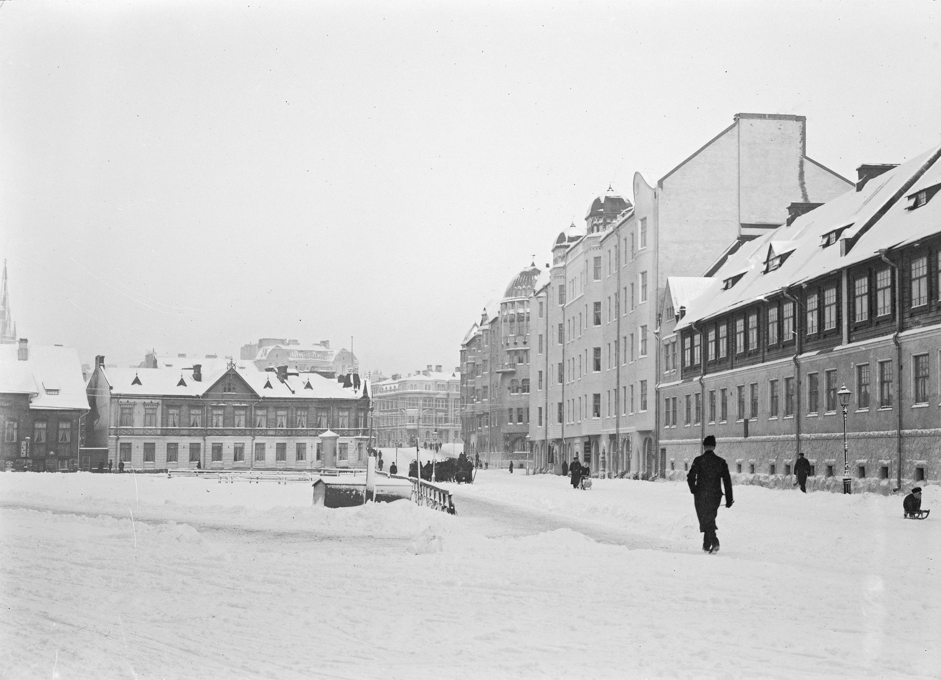 Kaptensgatan, Fabriksgatan i bakgrunden. Foto Gustaf Sandberg. sls1849_181 Ur boken Helsingfors i ord och bild Utgiven av Svenska litteratursällskapet i Finland, 2012